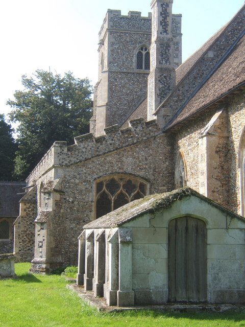 Detail of St George's Church, Shimpling Light and shade play on the stonework.